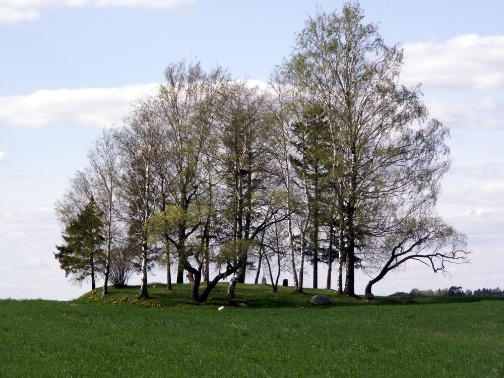 Cemeterie in Daušiškiai, Šiauliai district, Lithuania